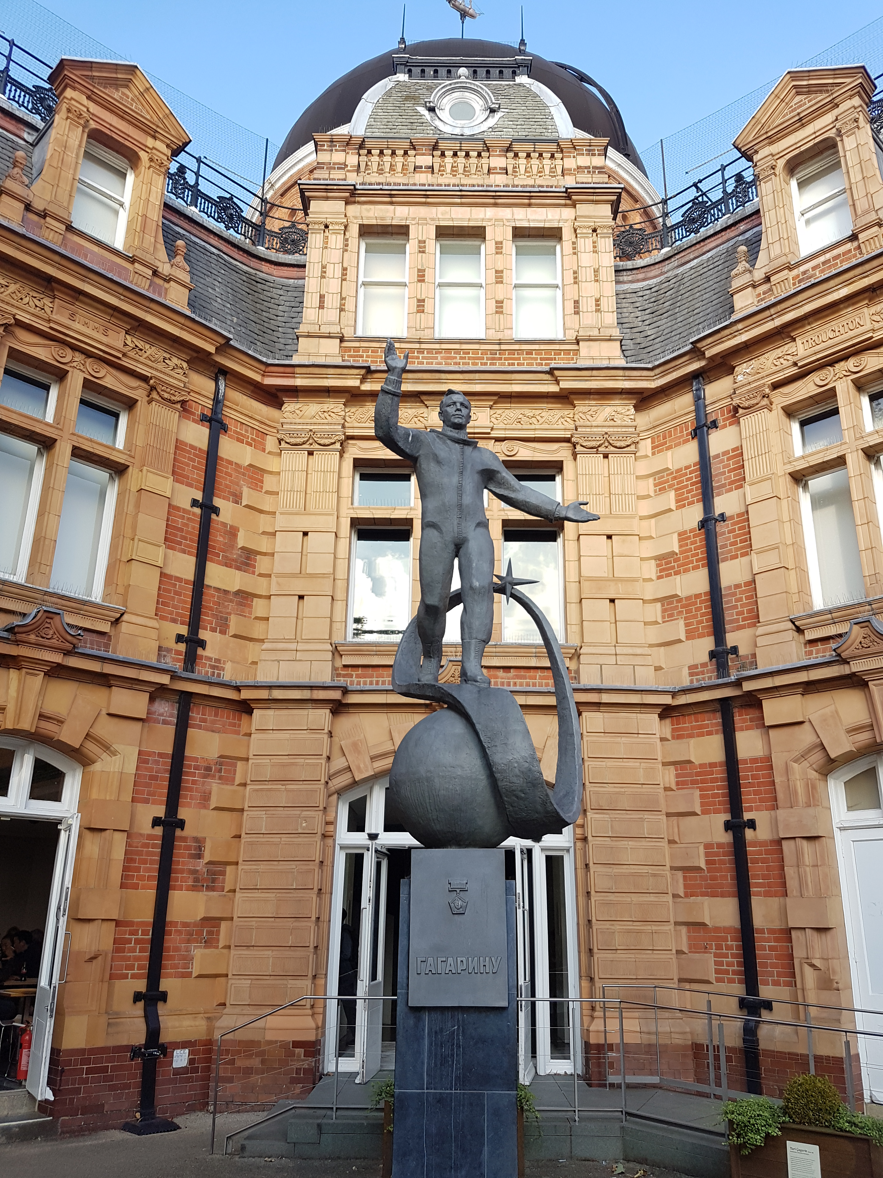 Metal statue of Yuri Gagarin infront of the Planetarium & Astronomy Center at the Royal Observatory in Greenwich